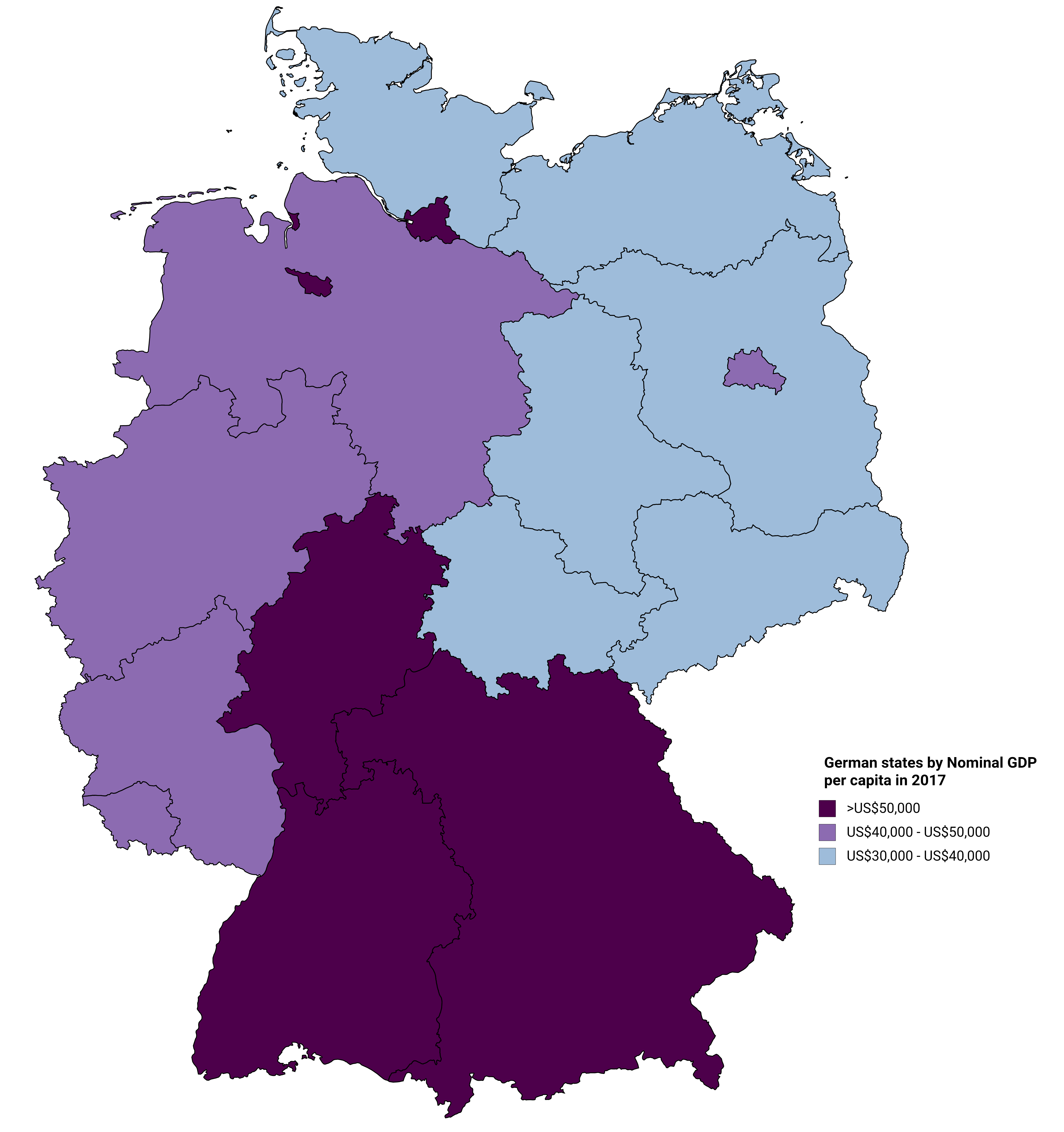 German states by Nominal GRP per capita in 2017